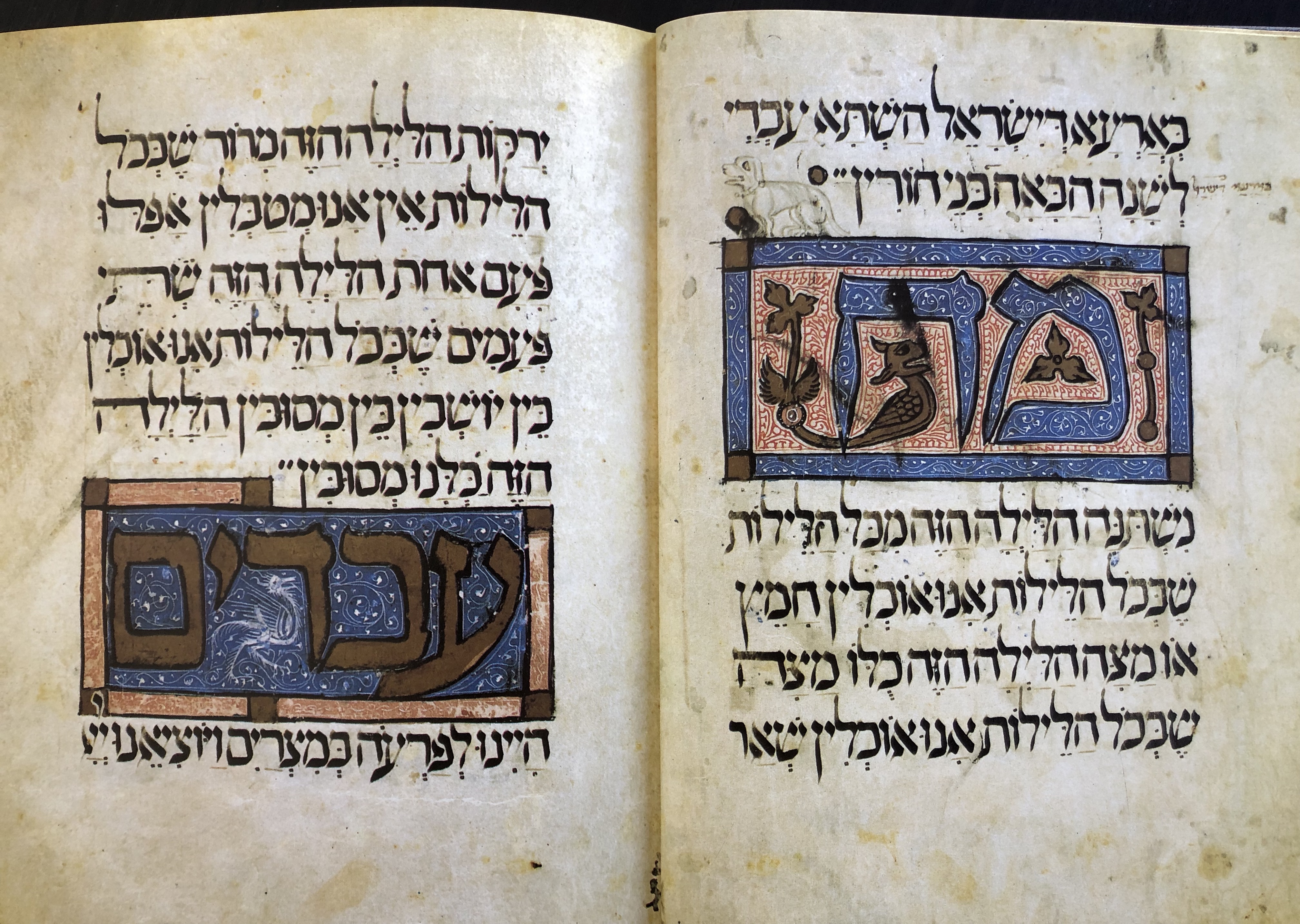 The Four Questions (Ma Nishtana), traditionally sung by the youngest child at the beginning of the Passover Seder. In Hebrew from the Sarajevo Haggadah, a famous illuminated manuscript from circa 1350 ce. The illustration on the right-hand page is the Hebrew word Ma (Why) that begins the questions. The illustration on the left is the Hebrew word Avodim (Slaves) that starts the next section of the Haggadah (Slaves we were to to Pharaoh in Egypt...) which begins to answer the questions.